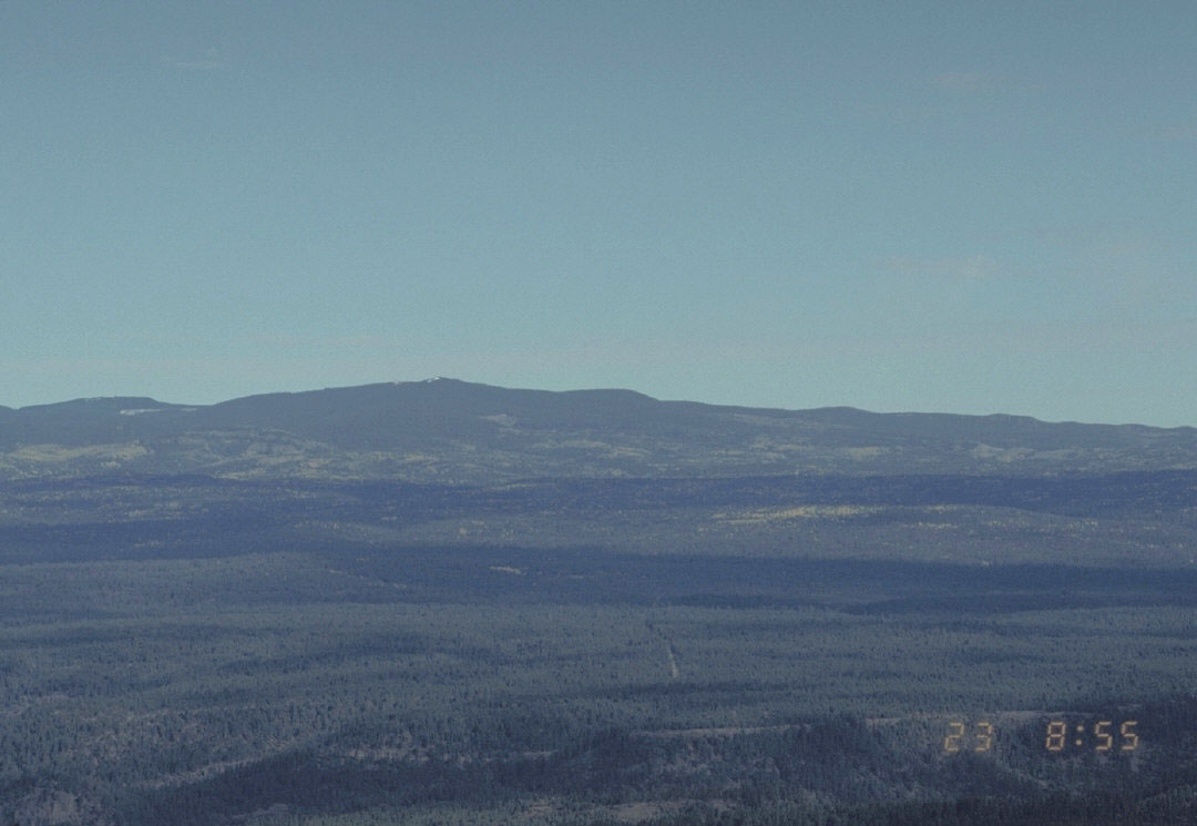 Image of Mount Baldy, Arizona, taken from a US Forest Service webcam.